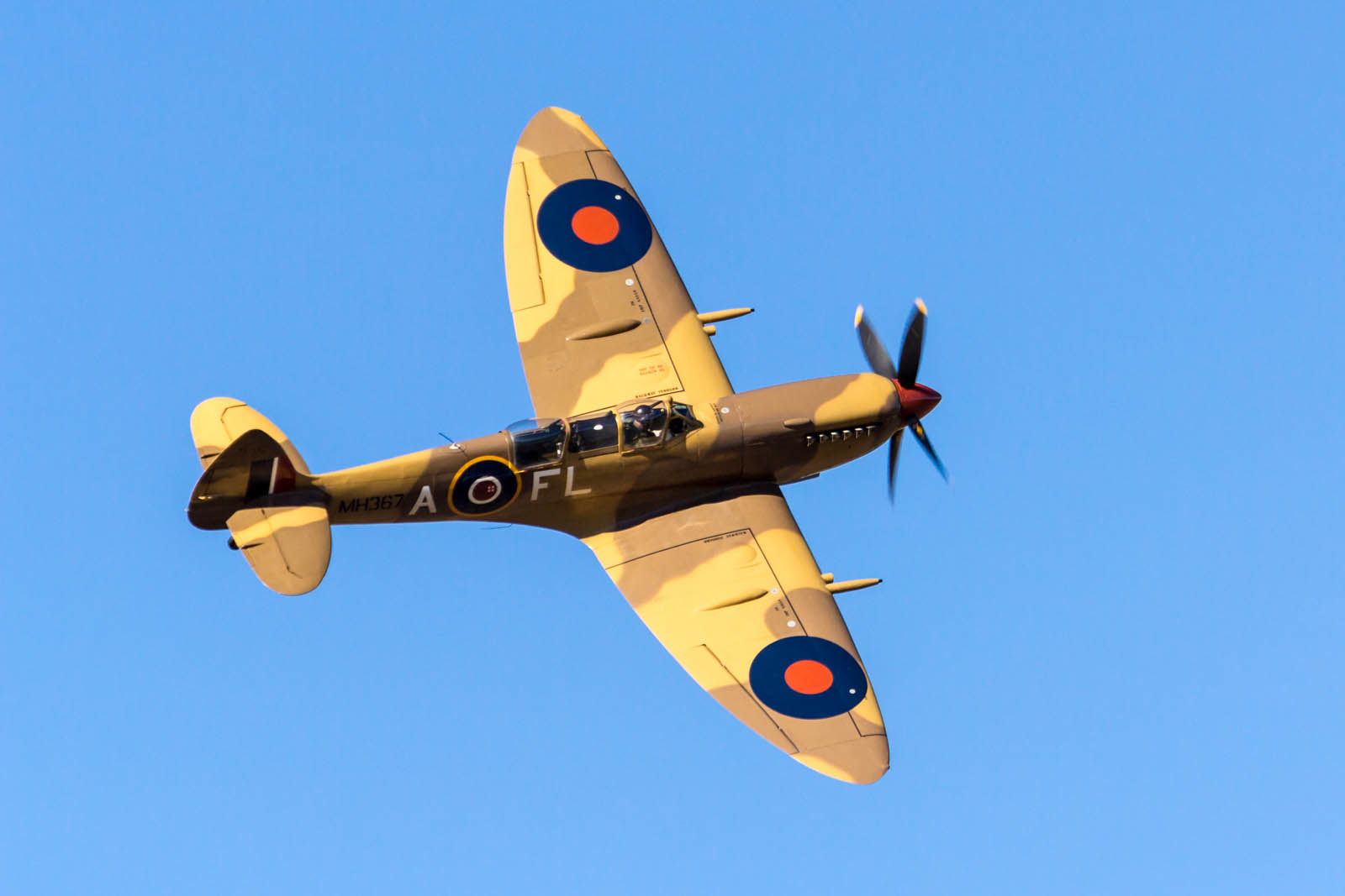 Classic Fighters 2015 - Supermarine Spitfire TR9 ZK-WDQ